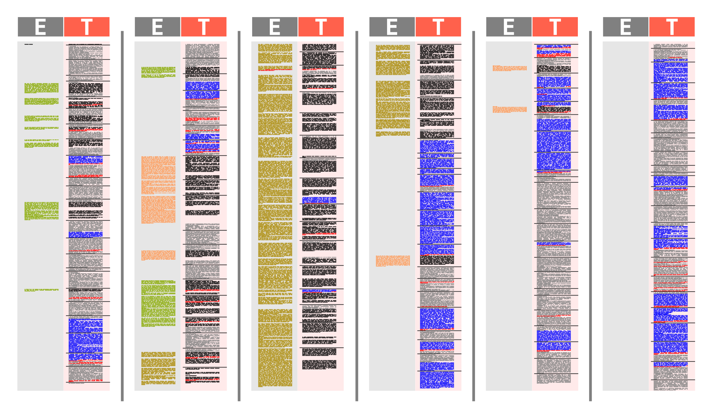 E: External sources, T: Zsolt Semjén's 1991 theology laureatus dissertation ("The challenge of New Age and opportunity for evangelization"). External Sources: ██ Stefan Üblackner: Der Traum vom "New Age". Stadt Gottes (1989) January, February, March ██ Helmuth von Glasenapp: Die fünf großen Religionen (Translated to Hungarian with the title "Az öt világvallás". Budapest, Gondolat, 1975) ██ Lewis Spence: The Encyclopedia of the Occult. London, Bracken Books, 1988 ██ Verbatim quotations, referenced correctly. Based on